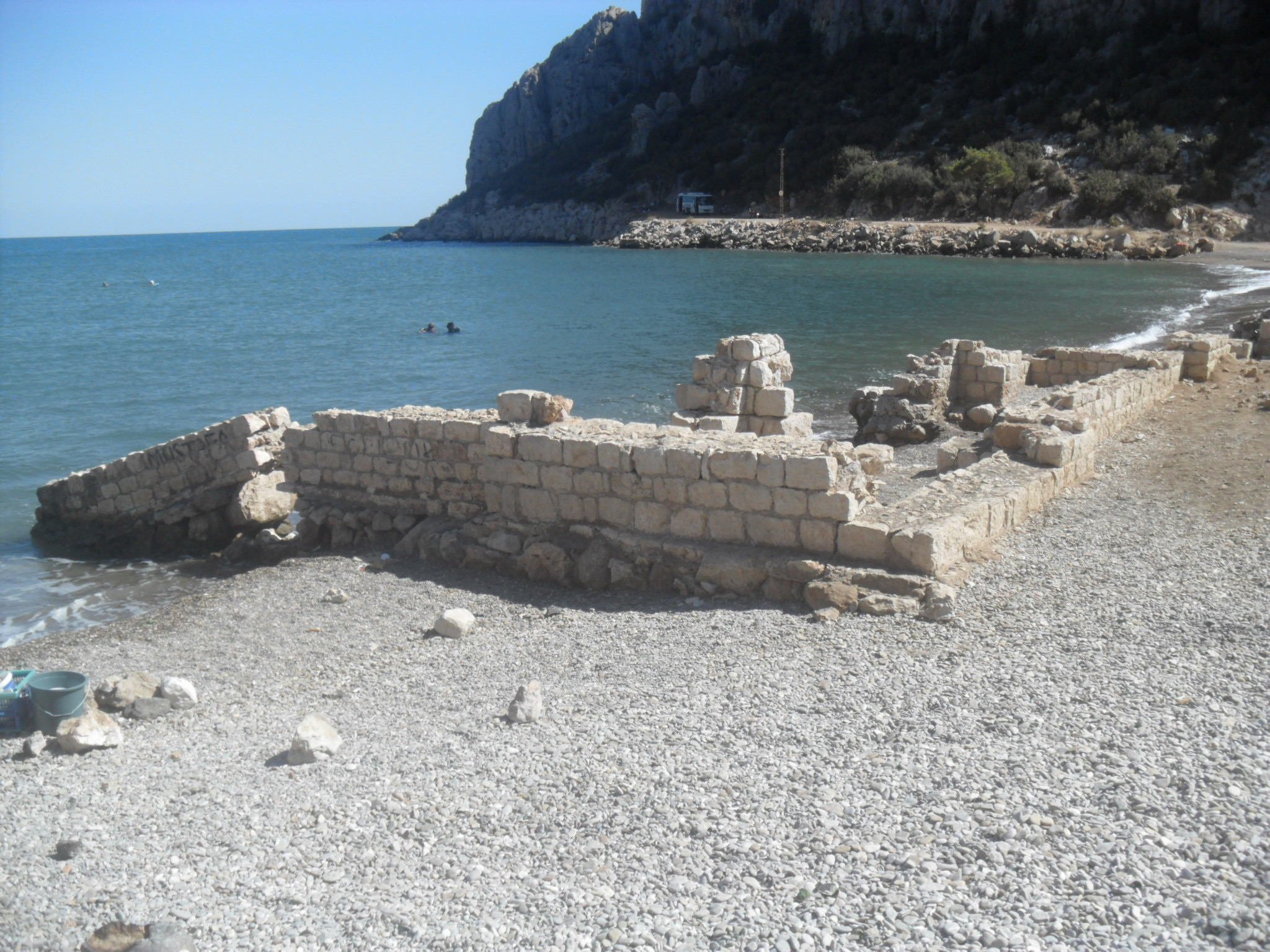 Eğribük bay in Mersin Province, Turkey and ruins of Philaea